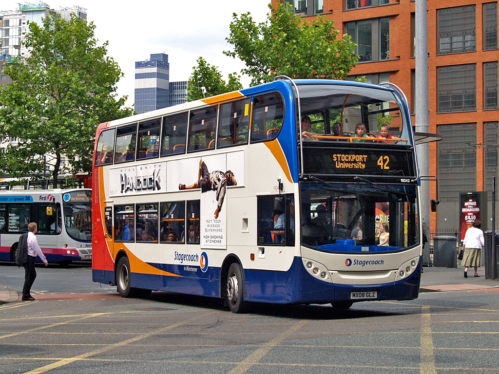 Stagecoach Manchester 19242 MX08 GLZ, an Alexander Dennis ‘Trident’ built 2008 with Alexander Dennis ‘Enviro 400’ H47/33F body turns out of Piccadilly Gardens bus station, Manchester onto Portland Street with the 14:48 Manchester Piccadilly Gardens to Stockport Bus Station via Rusholme and East Didsbury 42 service with First Manchester Limited 69173 MV 06 DWZ, a Volvo B7RLE built 2006 with a Wright ‘Eclipse Urban’ B43F body with a Manchester Piccadilly Gardens to Bolton Bus Station via Swinton, Walkden and Little Hulton 36 service behind. Friday 25th July 2008